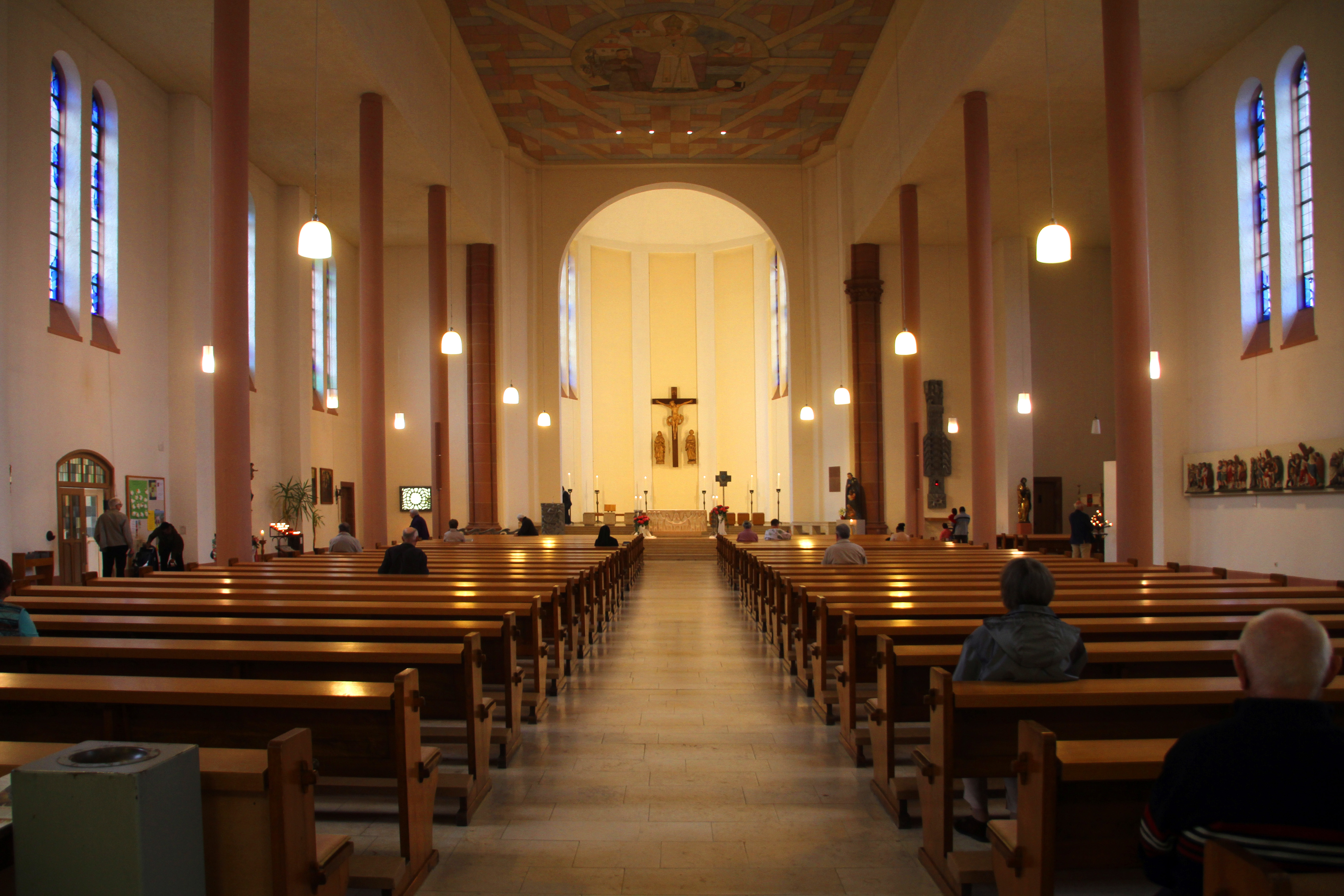 Church of Saint Pirmin in Pirmasens, interior decoration.